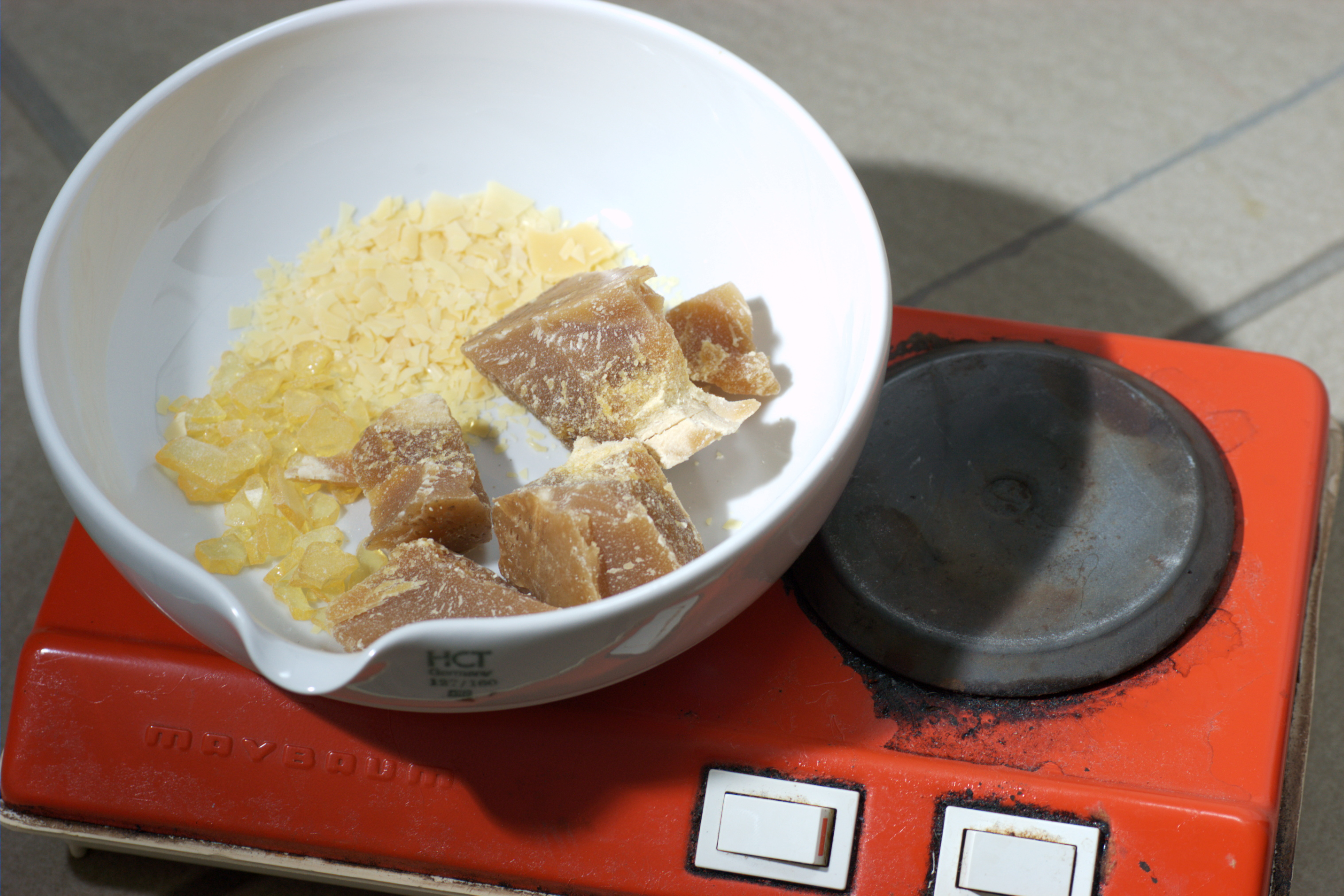 Making string wax. Here with Colophonium (transparent, on the left), Carnauba wax (top) and bee wax (bottom right, big bricks). The aluminium layer has been wrapped around a round wood stick.